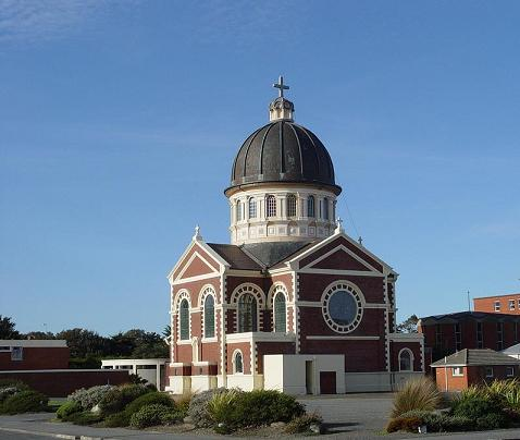 St Mary's Basilica (Catholic), 79 Tyne Street, Invercargill, New Zealand. Photo taken by myself, Jordan Wyatt. New Zealand Historic Places Trust Register number: 392